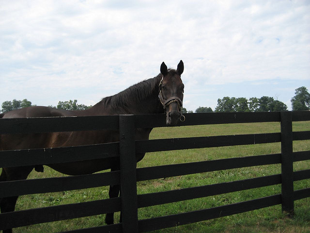 Retired racehorse and prolific sire Dynaformer at Three Chimneys Farm, Midway, KY